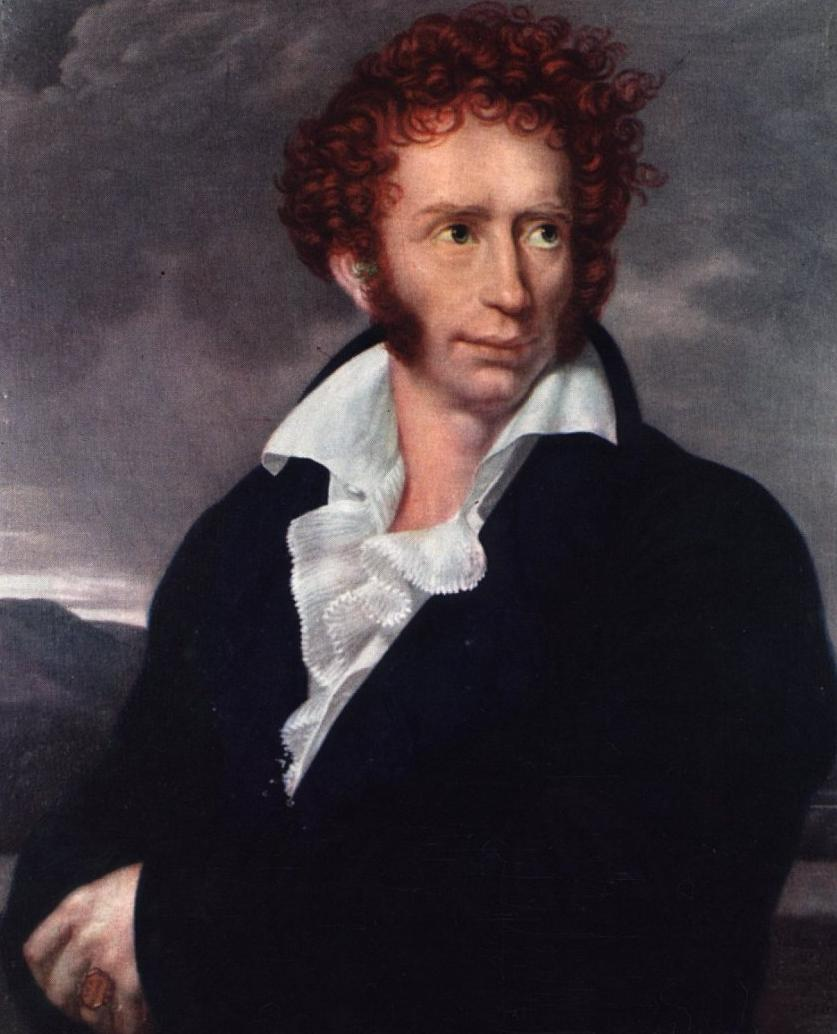 Ugo Foscolo, Italian poet